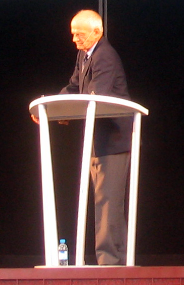 2004 Universal Forum of Cultures- Conference by Derek Bickerton, teacher of the University of Hawai